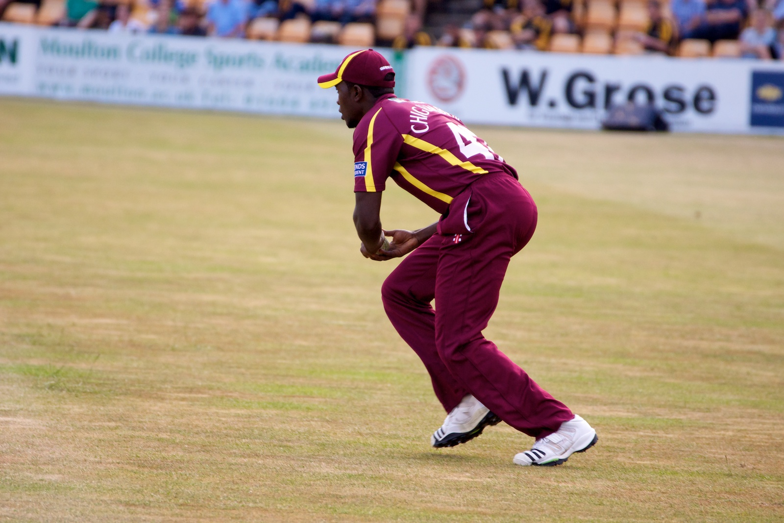 In action for Northants Steelbacks vs Yorkshire Carnegie, 2010.